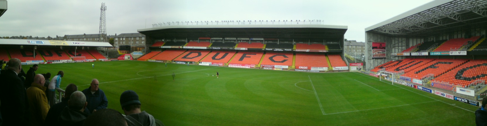 A panoramic view of Tannadice Park, Dundee, Scotland.